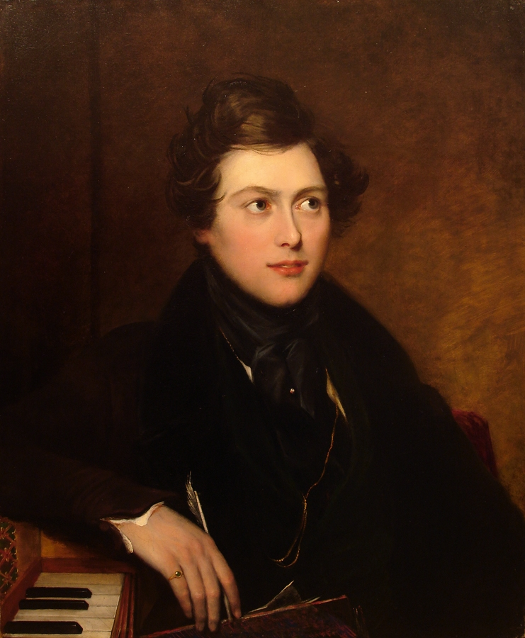 Portrait of William Sterndale Bennett (1816-1875)